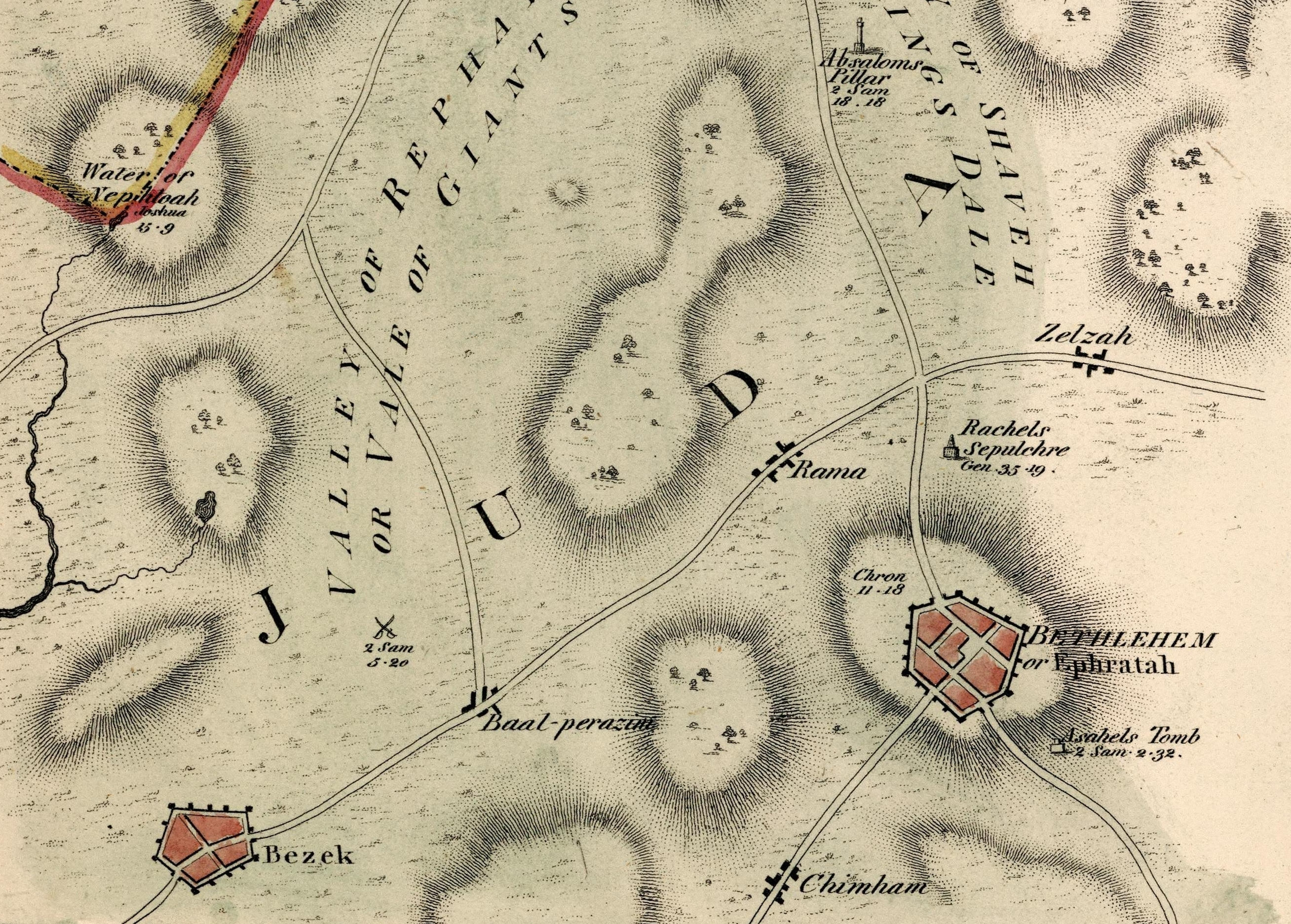 The Land of Moriah or Jerusalem and the Adjacent Country. Engraved for Mayo's Ancient Geography & History. H.S. Tanner. (to accompany) An Atlas Of Ten Select Maps Of Ancient Geography Both Sacred And Profane; With A Chronological Table Of Universal History & Biography.